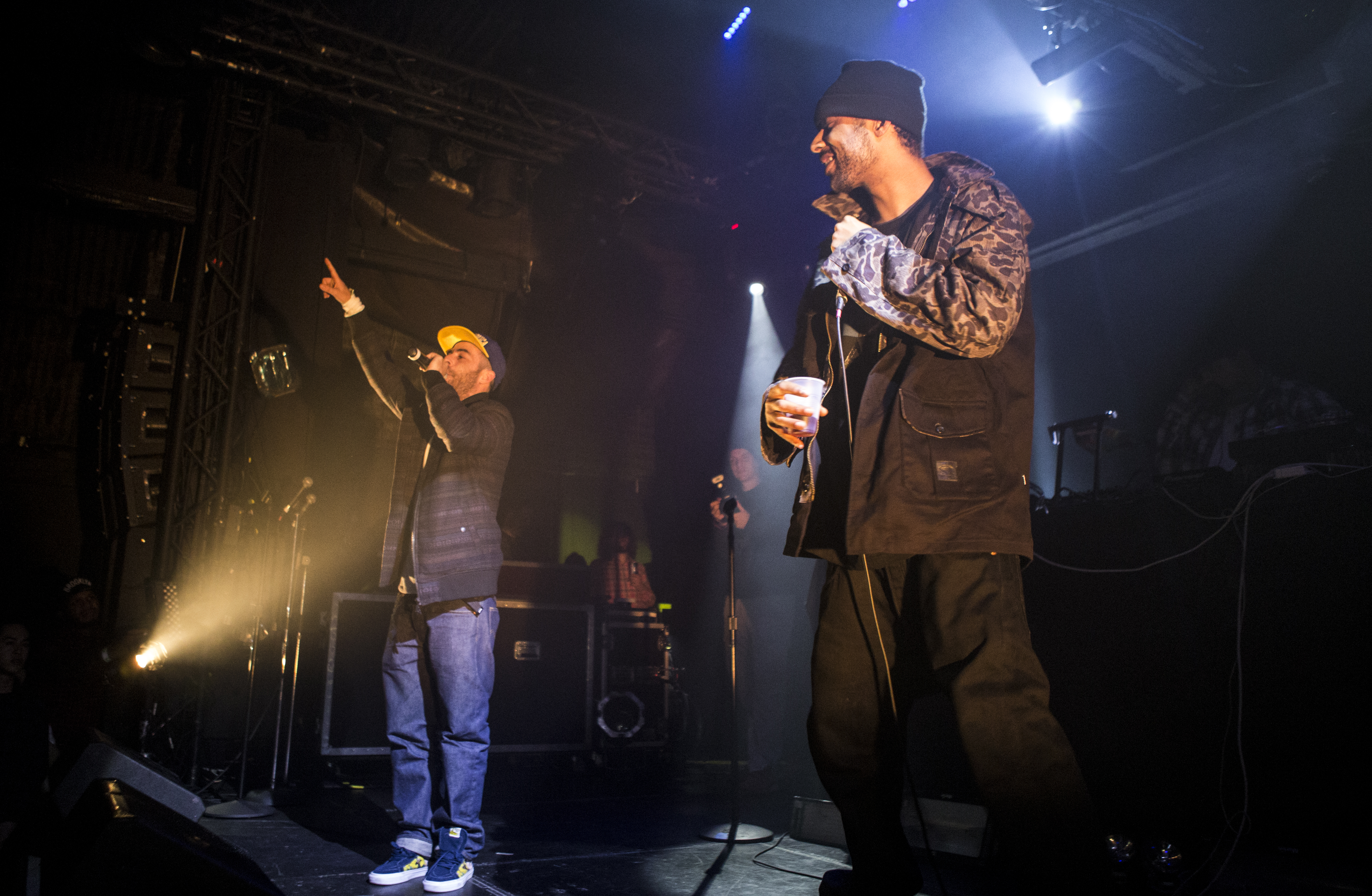 Image of American hip hop group Gangrene.